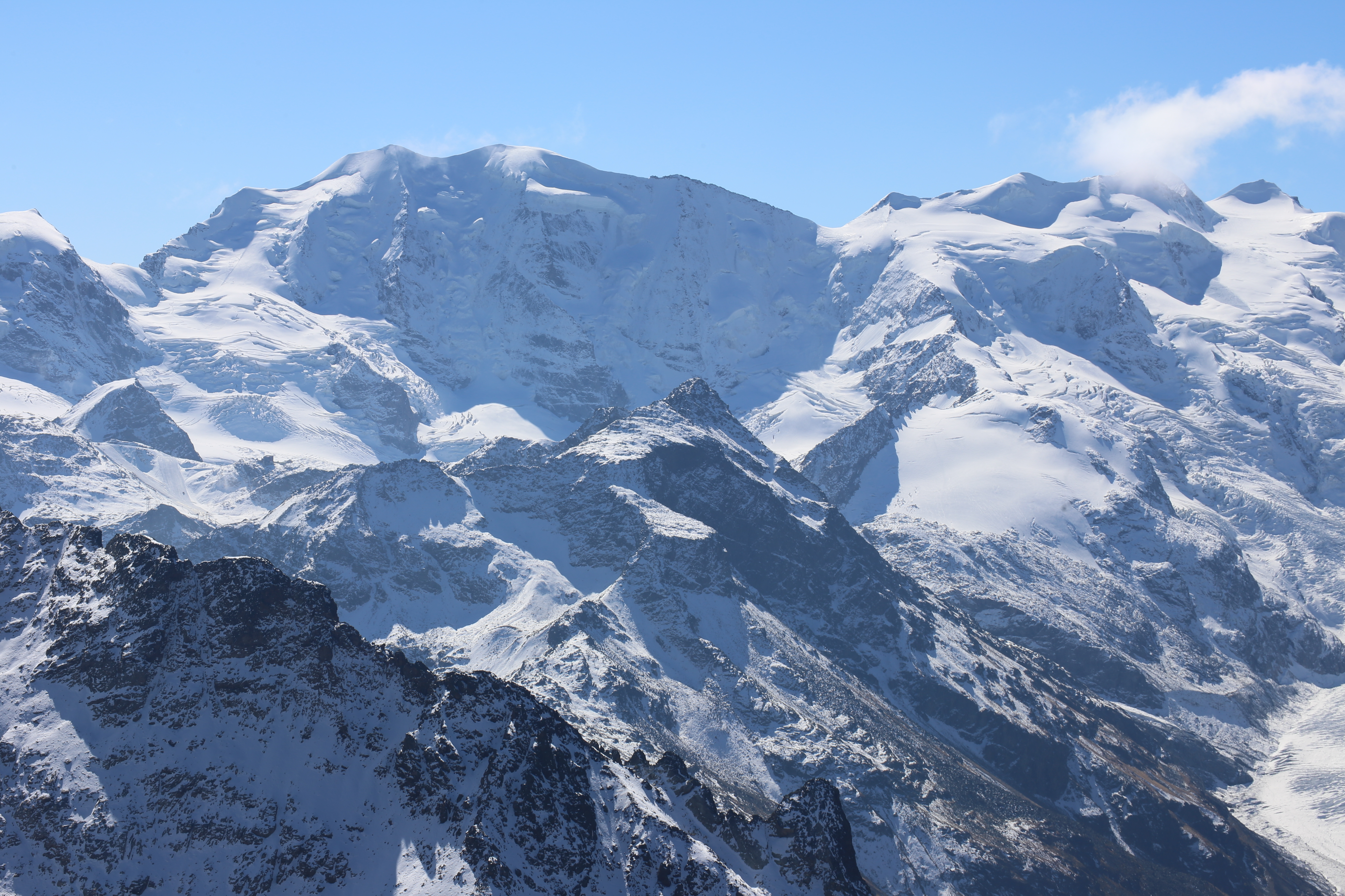 View from top of Piz Languard towards the Bernina range (Piz Palü, left, Bellavista and Crast'Agüzza); in the middle of the image Munt Pers, lefthand Diavolezza ski area